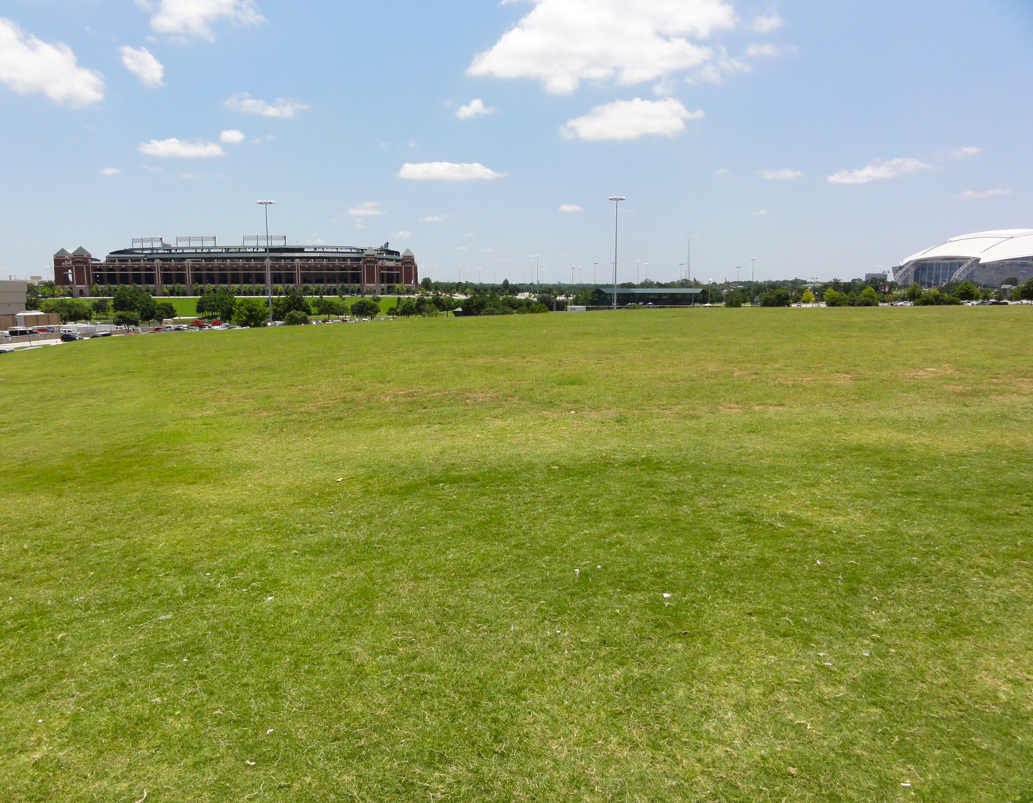 The site of Arlington Stadium, former home of the Texas Rangers. Rangers Ballpark in Arlington visible in background.